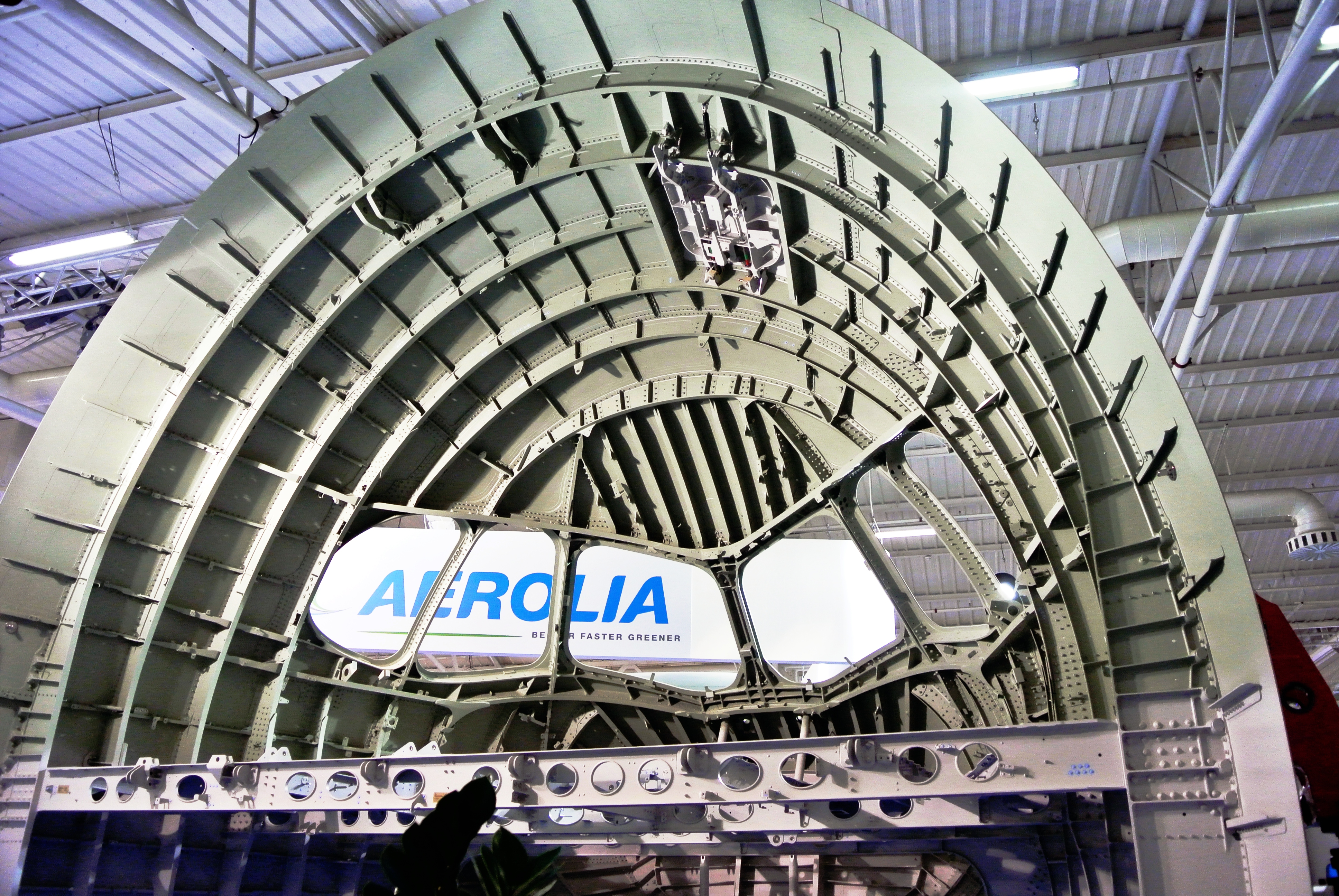 Section N'11 made by Aerolia, of the Airbus A350, at Paris Airshow 2013